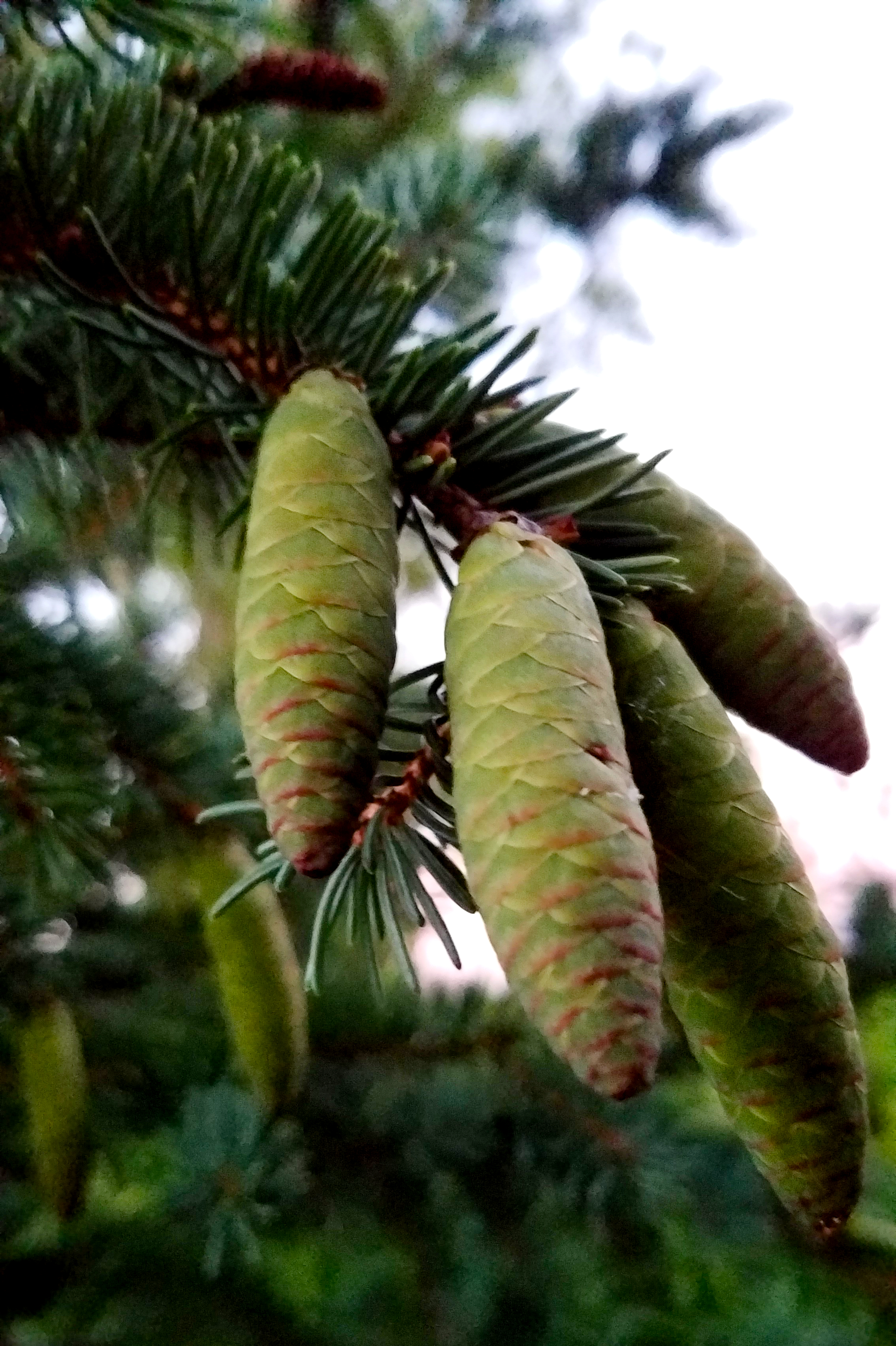 White Spruce Cones